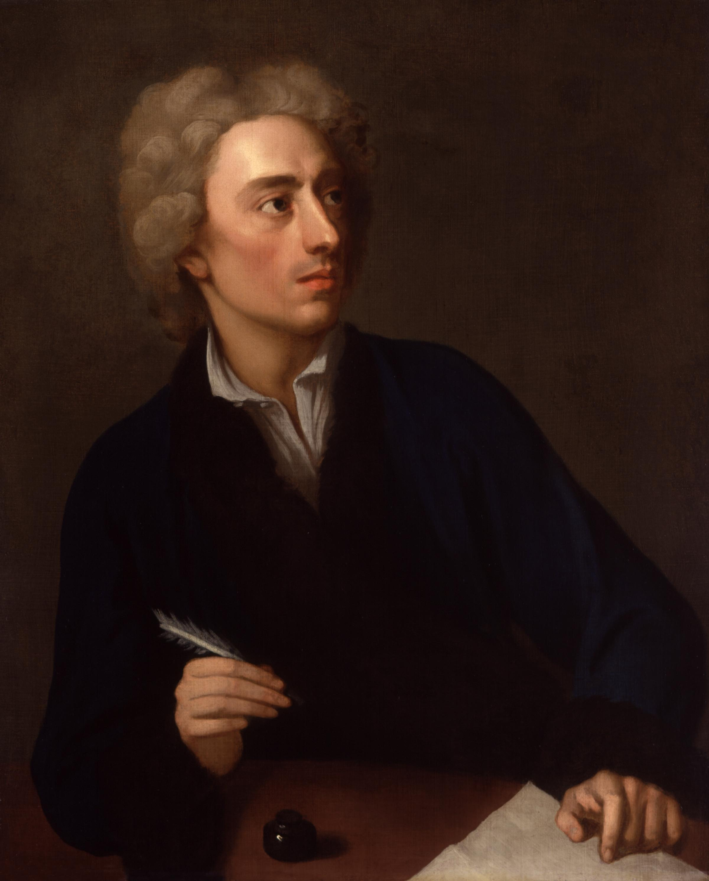 Alexander Pope (21 May 1688 – 30 May 1744) is generally regarded as the greatest English poet of the eighteenth century, All images in this batch have been confirmed as author died before 1939 according to the official death date listed by the NPG.